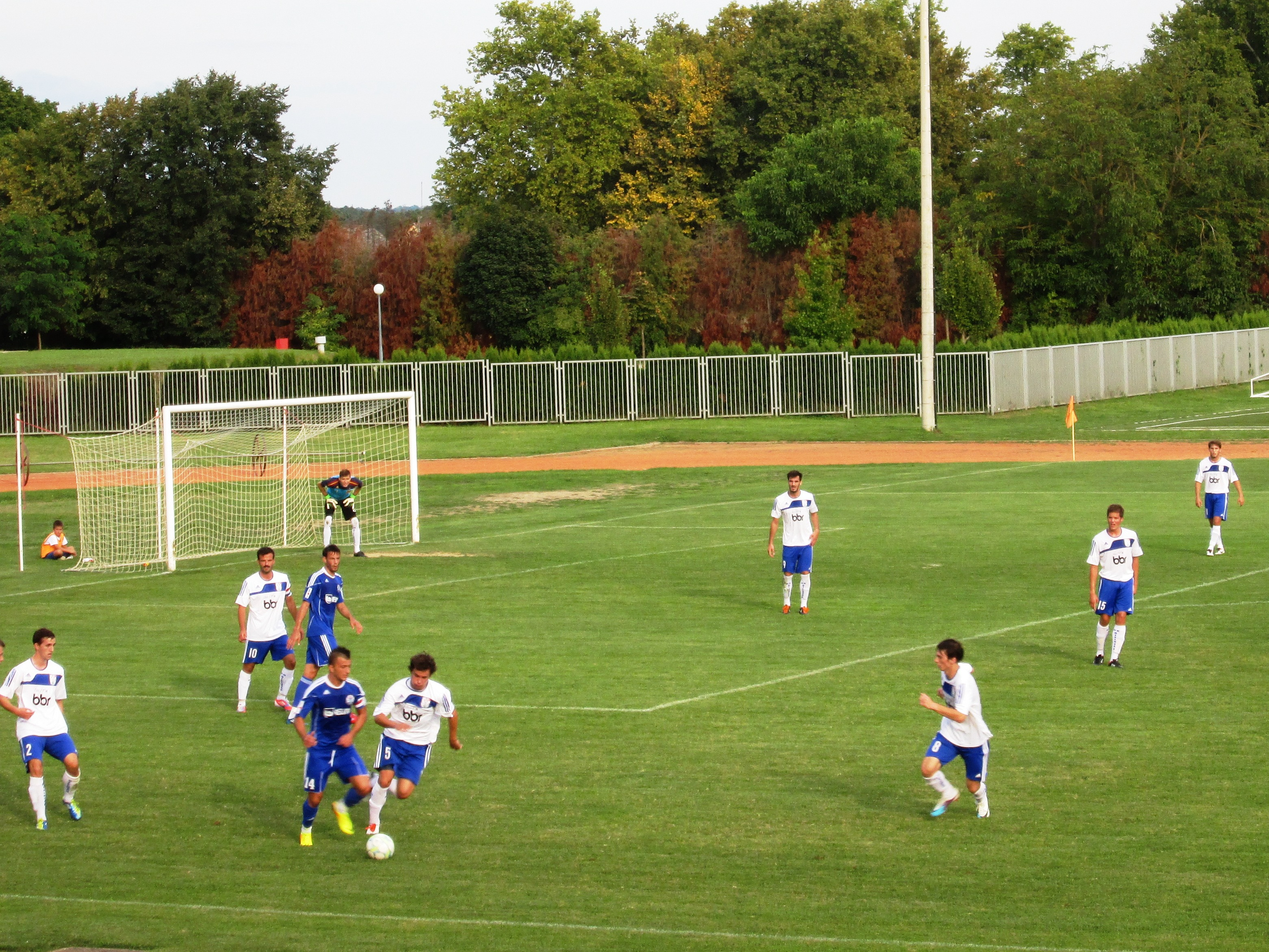 Football match between FC Bjelovar and FC Slaven Belupo on football stadium in Bjelovar, Croatia